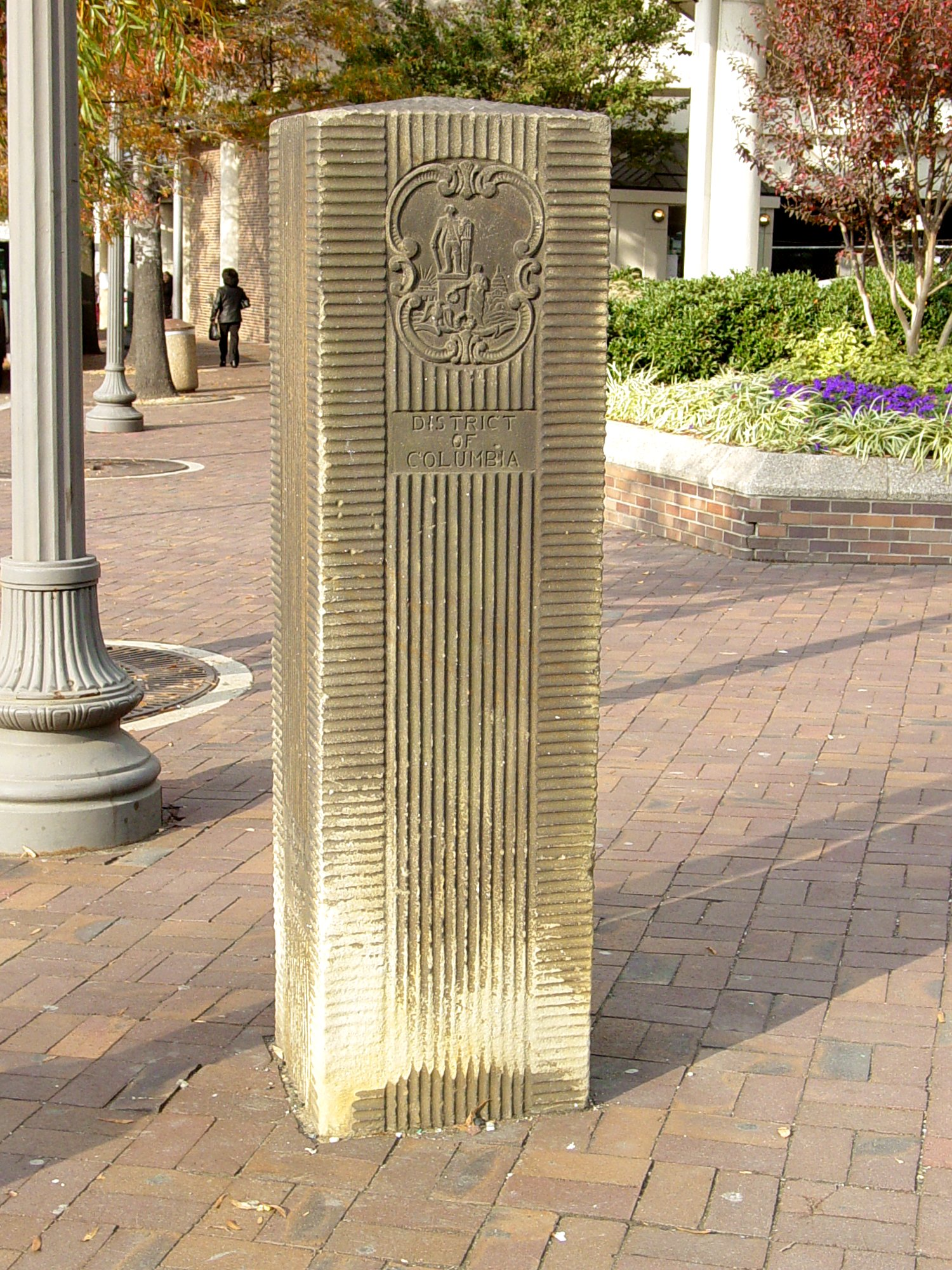 District of Columbia boundary marker at the corner of Western Avenue and Wisconsin Avenue NW, near the Friendship Heights station of the Washington Metro.